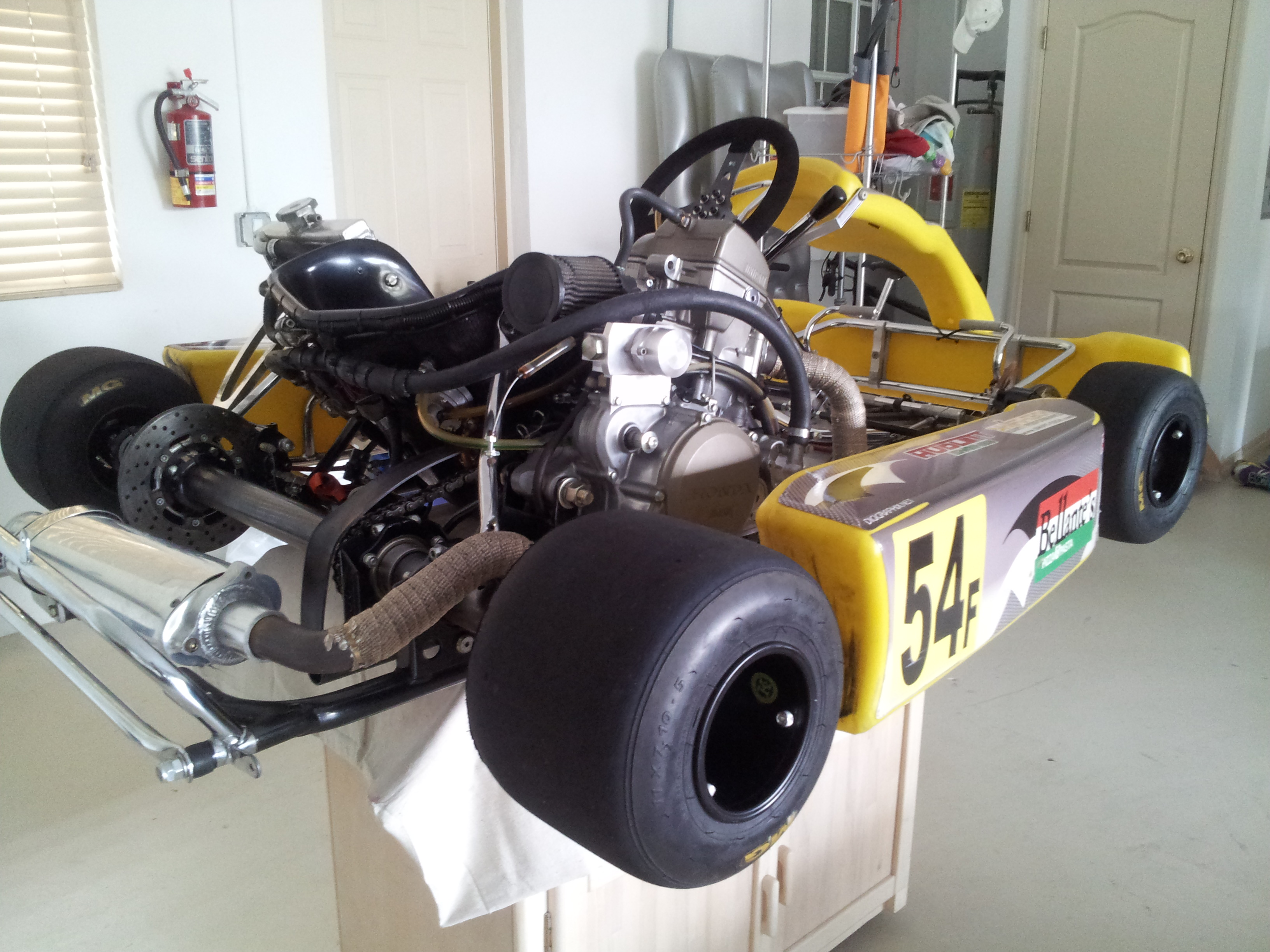 This is my go kart.